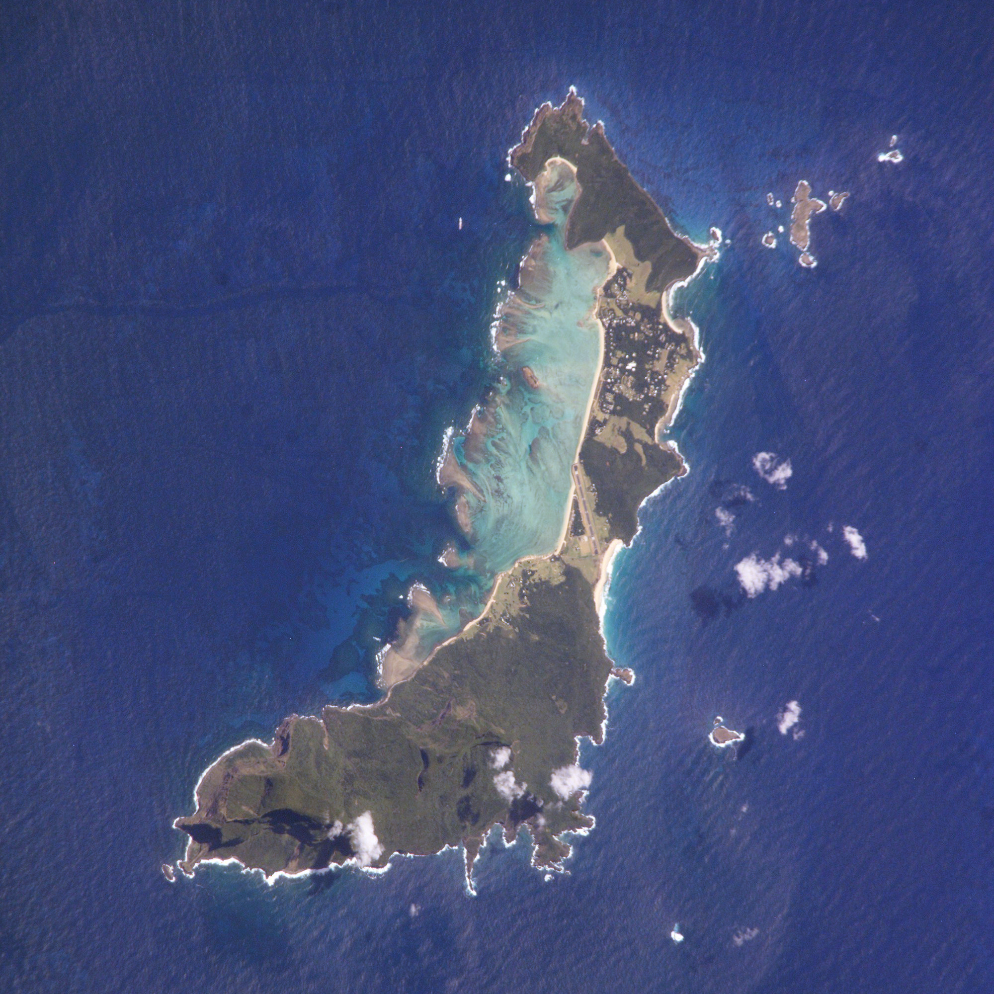 NASA astronaut image of Lord Howe Island in the Pacific Ocean